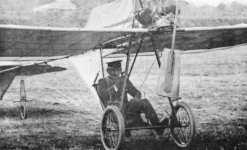 An aviator from Japan,日野熊蔵（Kumazo Hino）